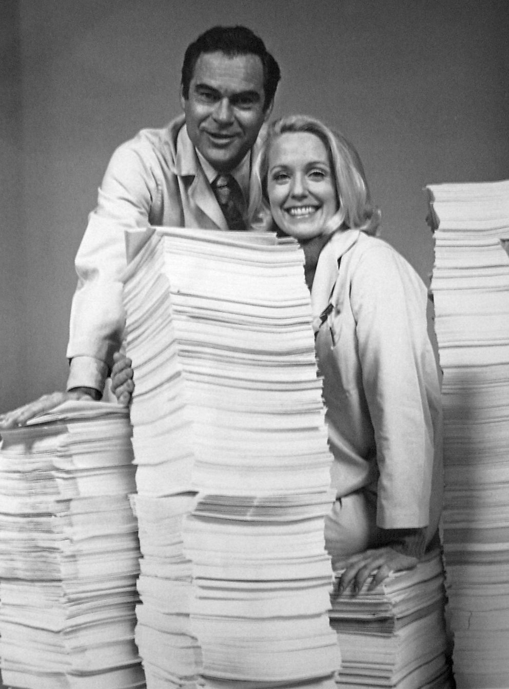 Photo of James Pritchett (Matt Powers) and Elizabeth Hubbard (Althea Davis) from the daytime drama, The Doctors. They pose with 10 years worth of scripts to celebrate the show's 10th anniversary.